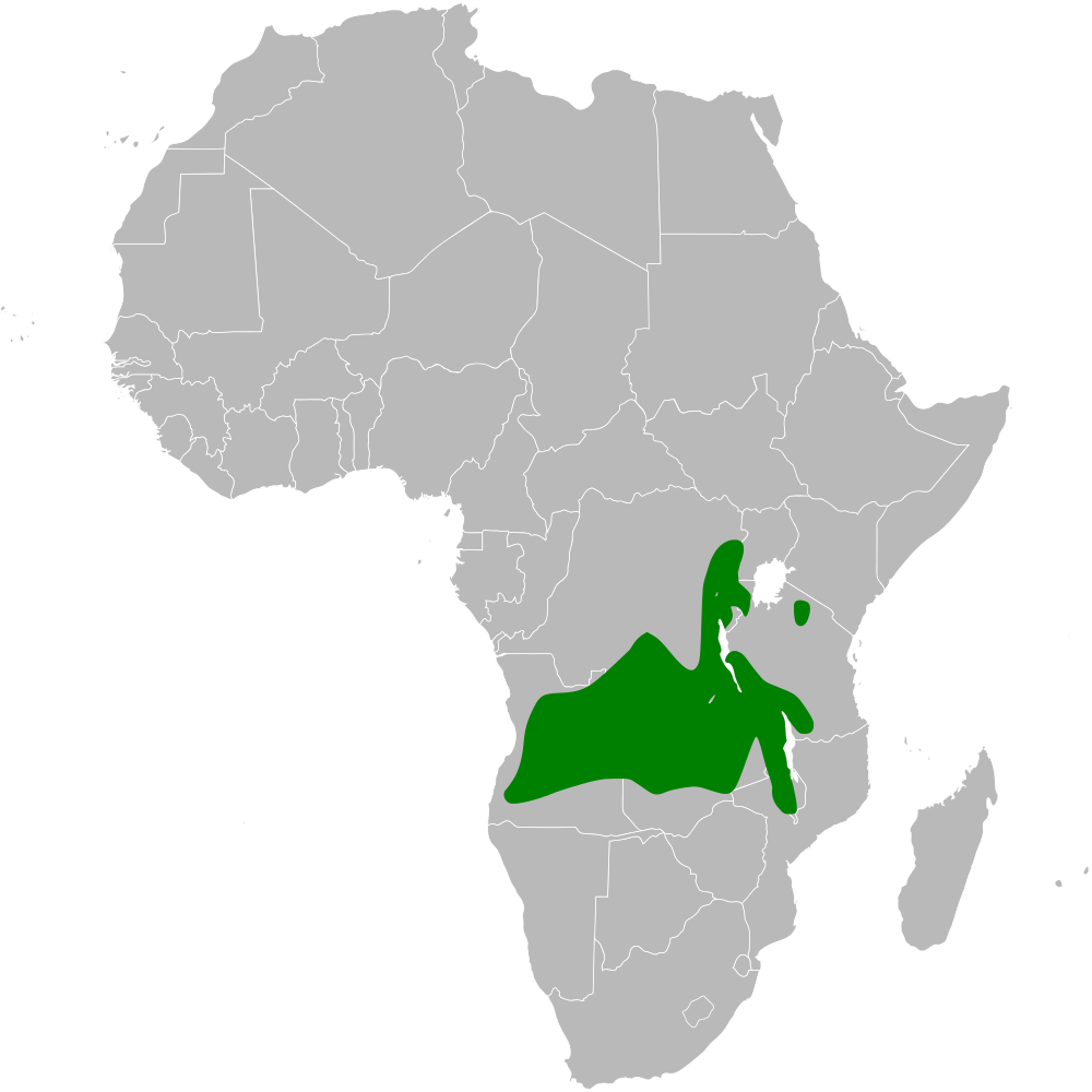 Elminia albicauda distribution map; using BlankMap-Africa.svg, based on